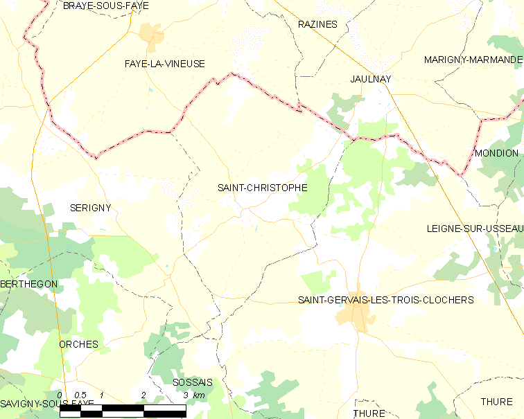 Map of French municipality Saint-Christophe